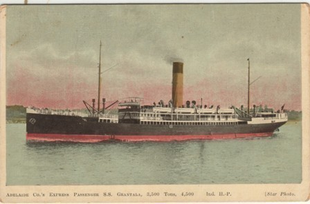 SS Grantala postcard